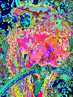 Sample image rendered with an incorrect indexed palette